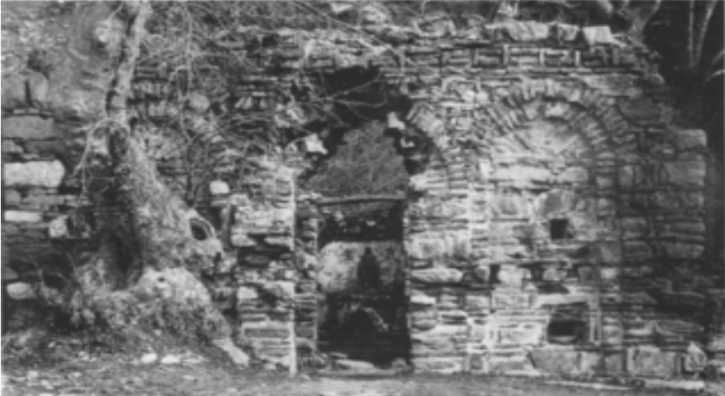 Entrance to Mary's House in Ephesus as found on the first expedition.